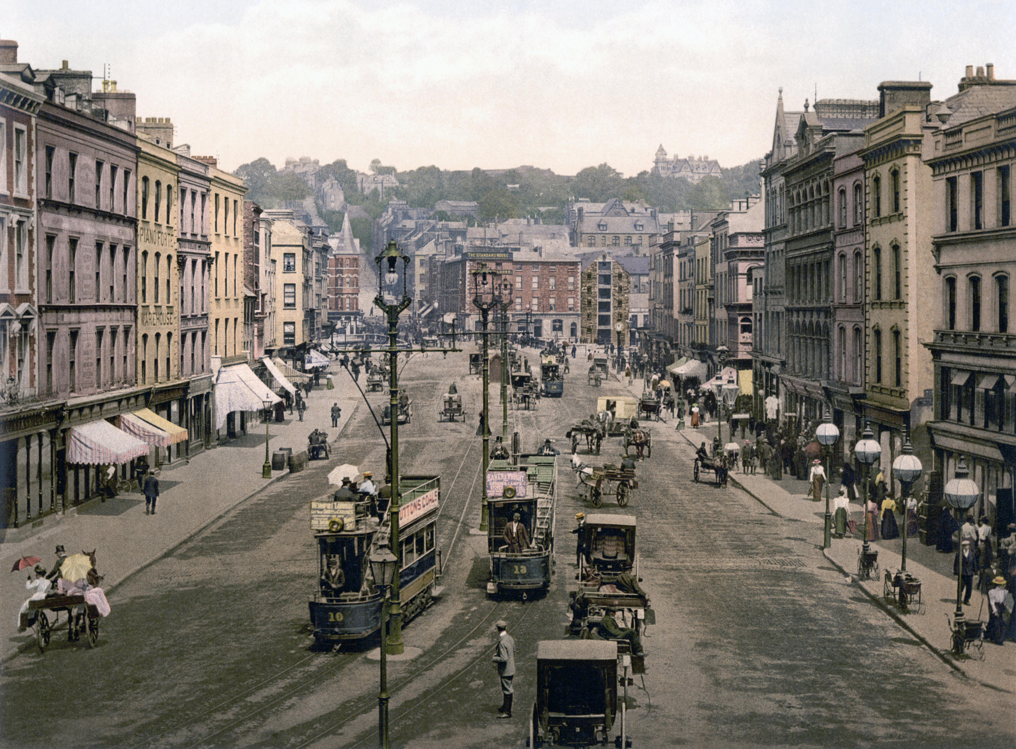 Patrick Street, Cork, IrelandGaeilge: Tramanna ar Shráid Phádraig i gCorcaigh sna 1890í